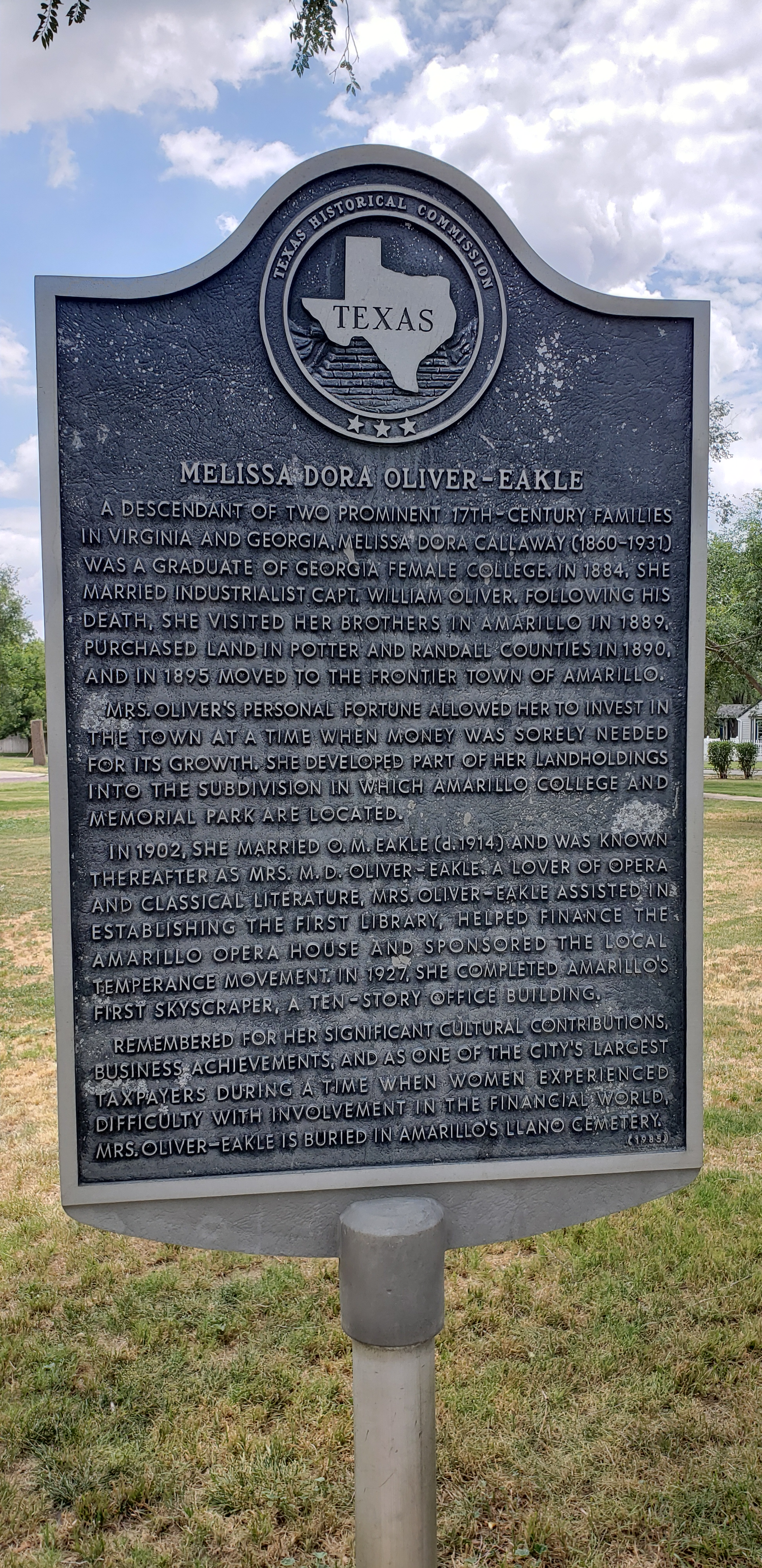 Oliver-Eakle historical marker, Amarillo texas